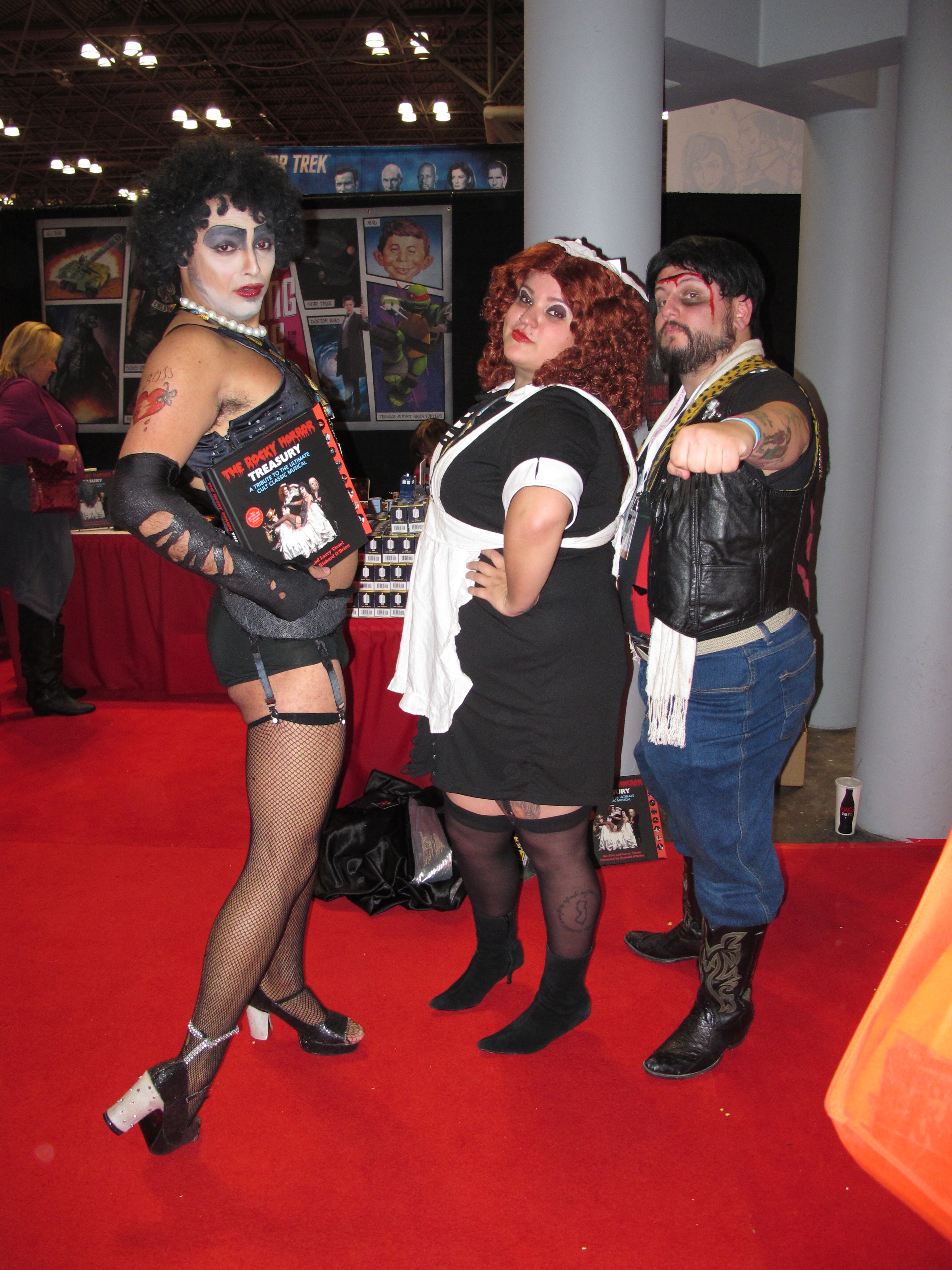 Rocky Horror Picture Show Cosplay at the 2014 New York Comic Con.